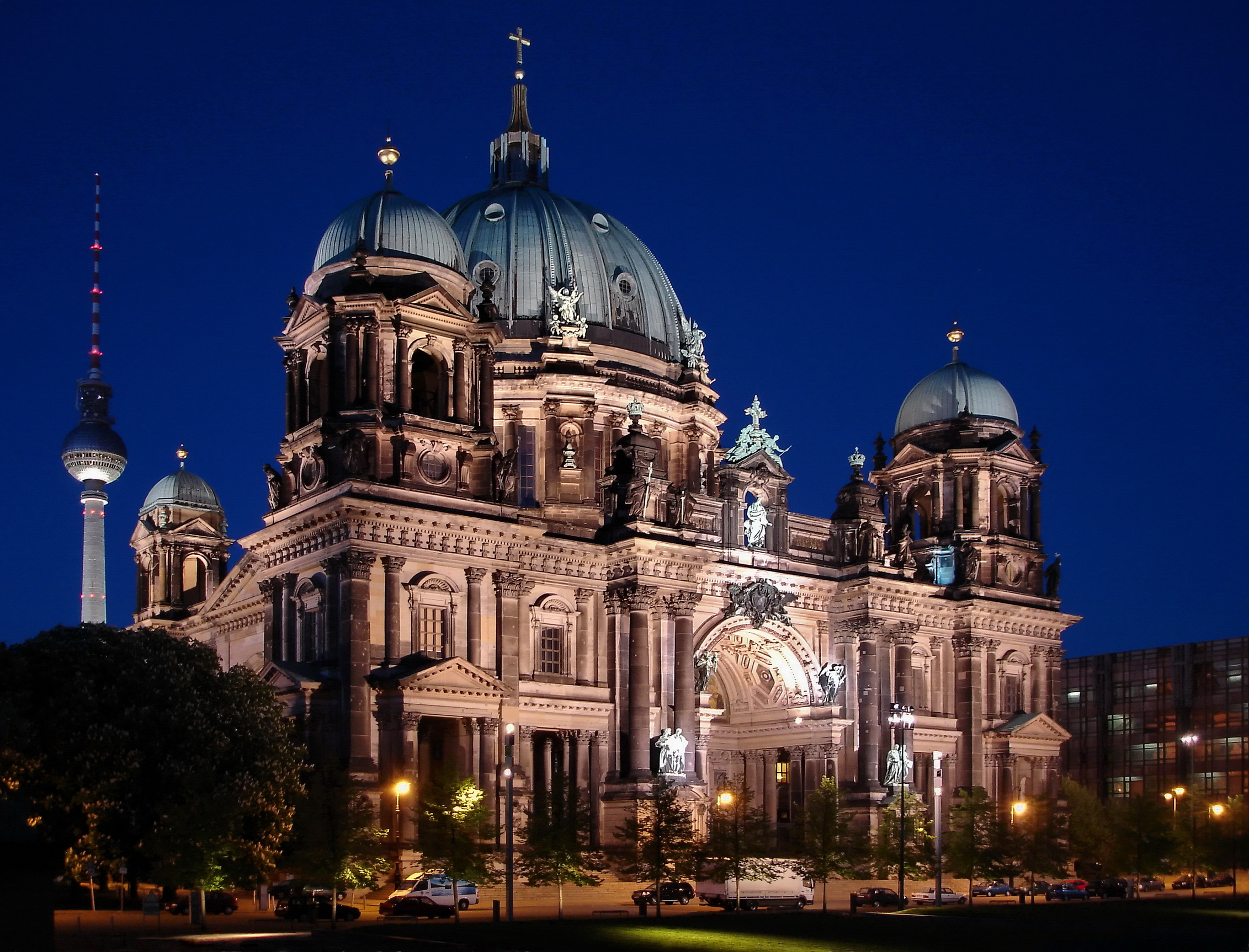 Berliner Dom with Berliner Fernsehturm in the background - photo taken at evening at the blue hour